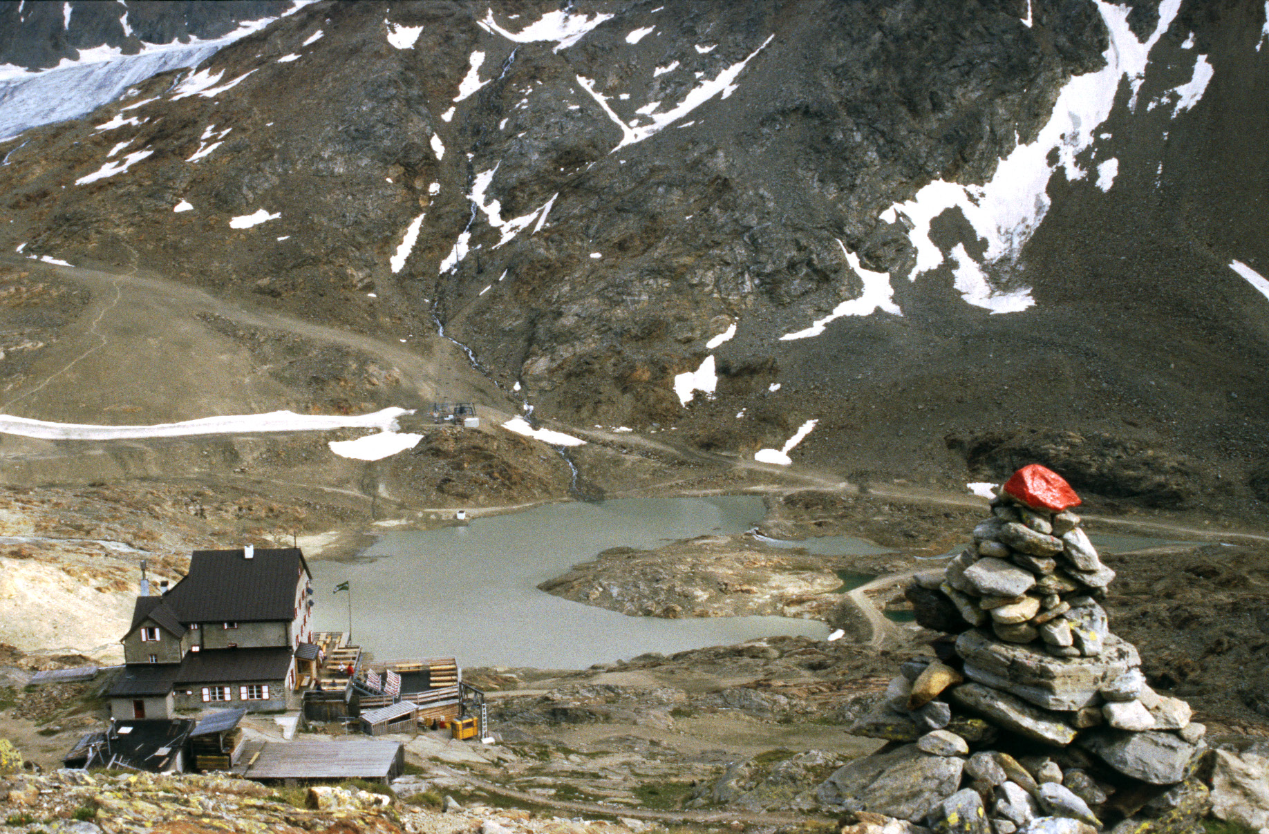 Refuge Schöne Aussicht from northwest, with glacial lake supplied from Hochjochferner (South Tyrol)